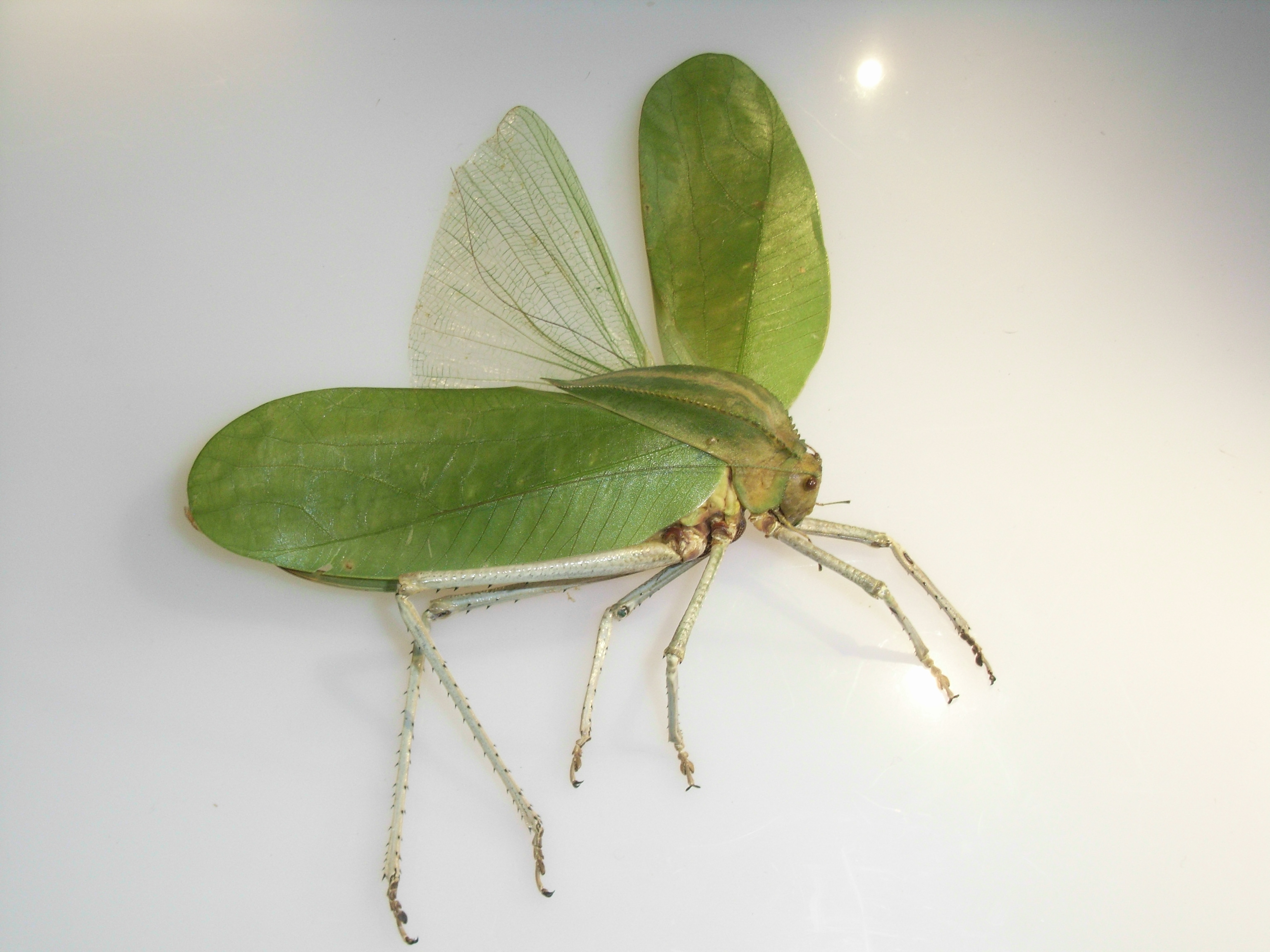 Siliquofera grandis Ex coll. Felix Stumpe